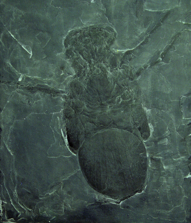 Cast of the Megarachne servinei holotype, exhibited at the Museum of Natural Sciences of Barcelona. The holotype itself is kept at the Museum of Paleontology of the University of Córdoba, in Córdoba (Argentina).